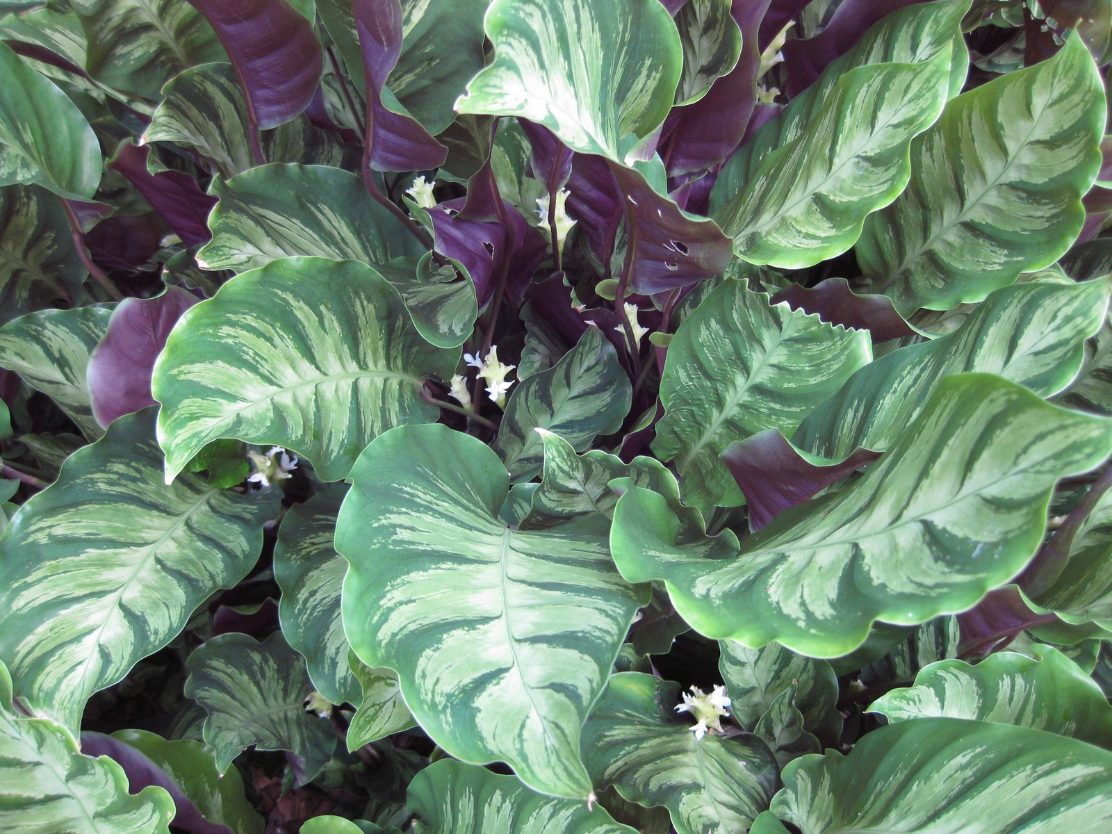 Photographed at the Royal Botanic Gardens Sydney (Australia) in December